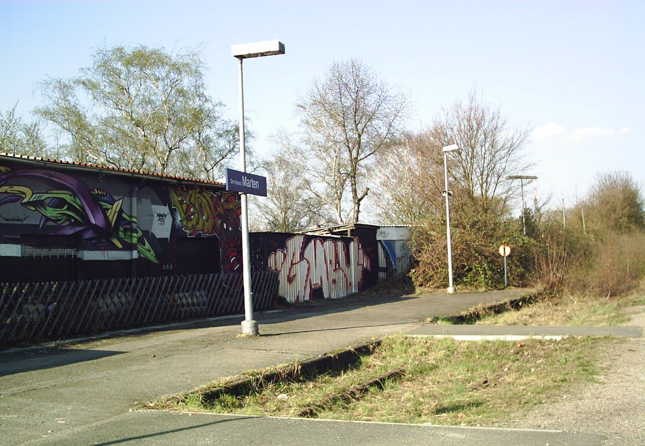 Marten Station, Dortmund, Germany check usage